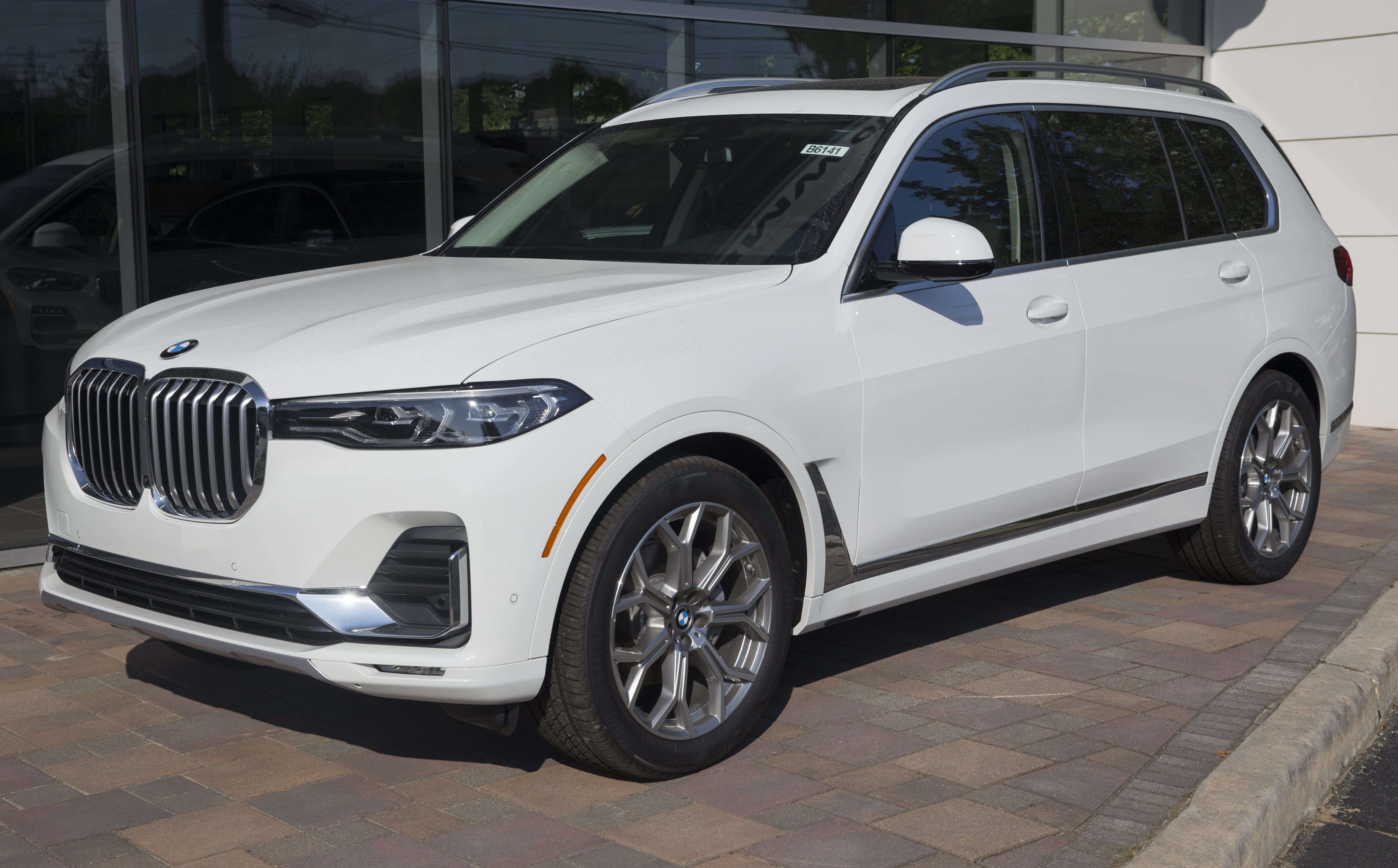 2019 BMW X7 xDrive40i.